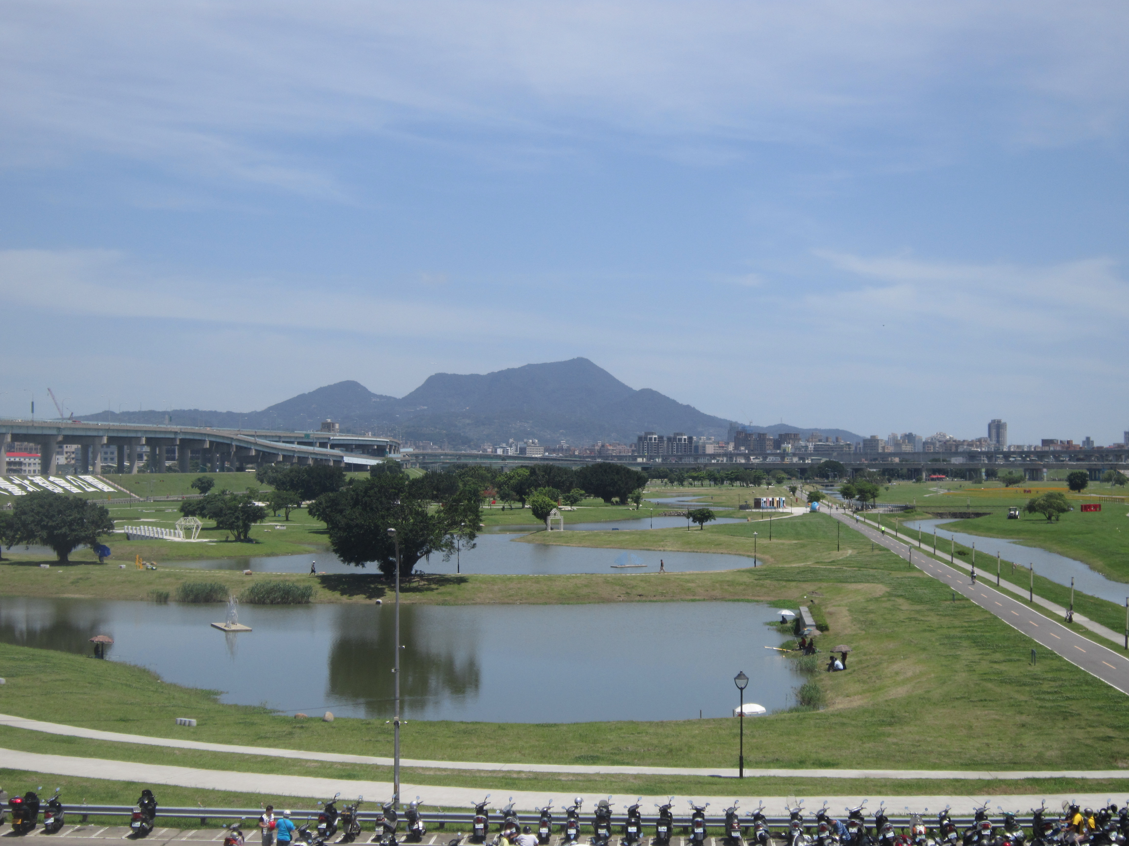 Taipei_Metropolitan_Park_2016-6